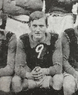 Photograph of Stan Watsford in 1900